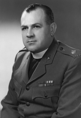 John Weir Foote, VC, CD (May 5, 1904 – May 2, 1988) SewerCat (talk) 17:17, 18 May 2012 (UTC) |month=May|day=18|year=2012